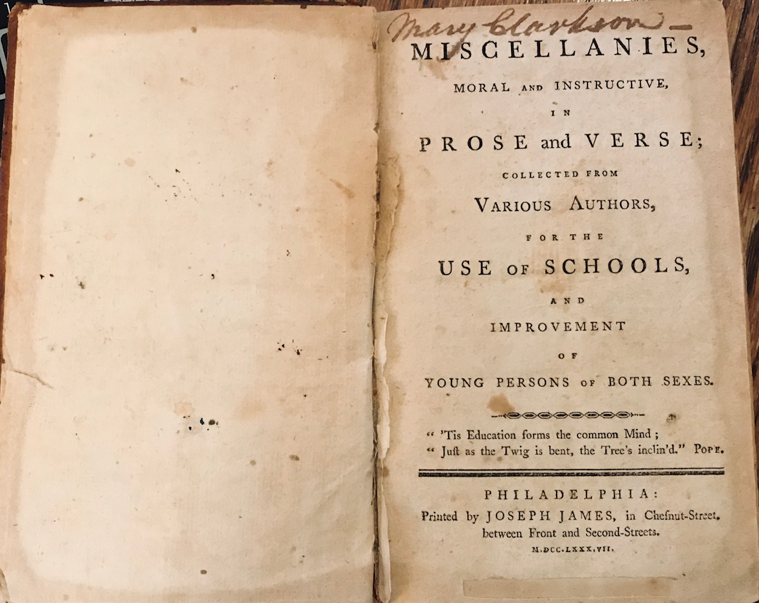 The title page from the first edition of Milcah Martha Moore's Miscellanies (Philadelphia, 1797).